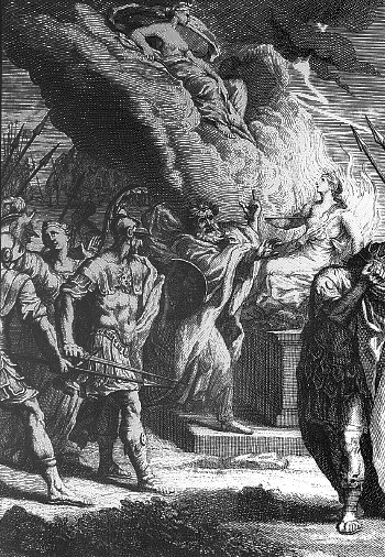 Illustration for the last scene of "Iphigénie" (Jean Racine).